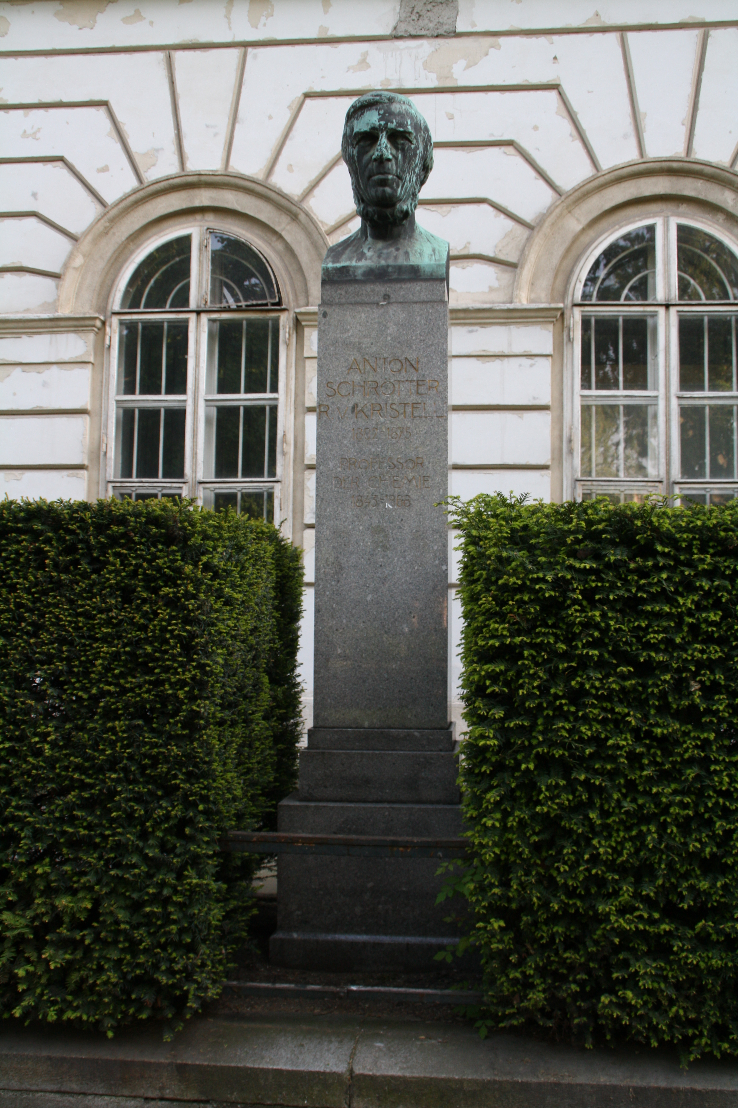 Bust of the chemist Anton Schrötter von Kristelli in front of the Technical University, Vienna